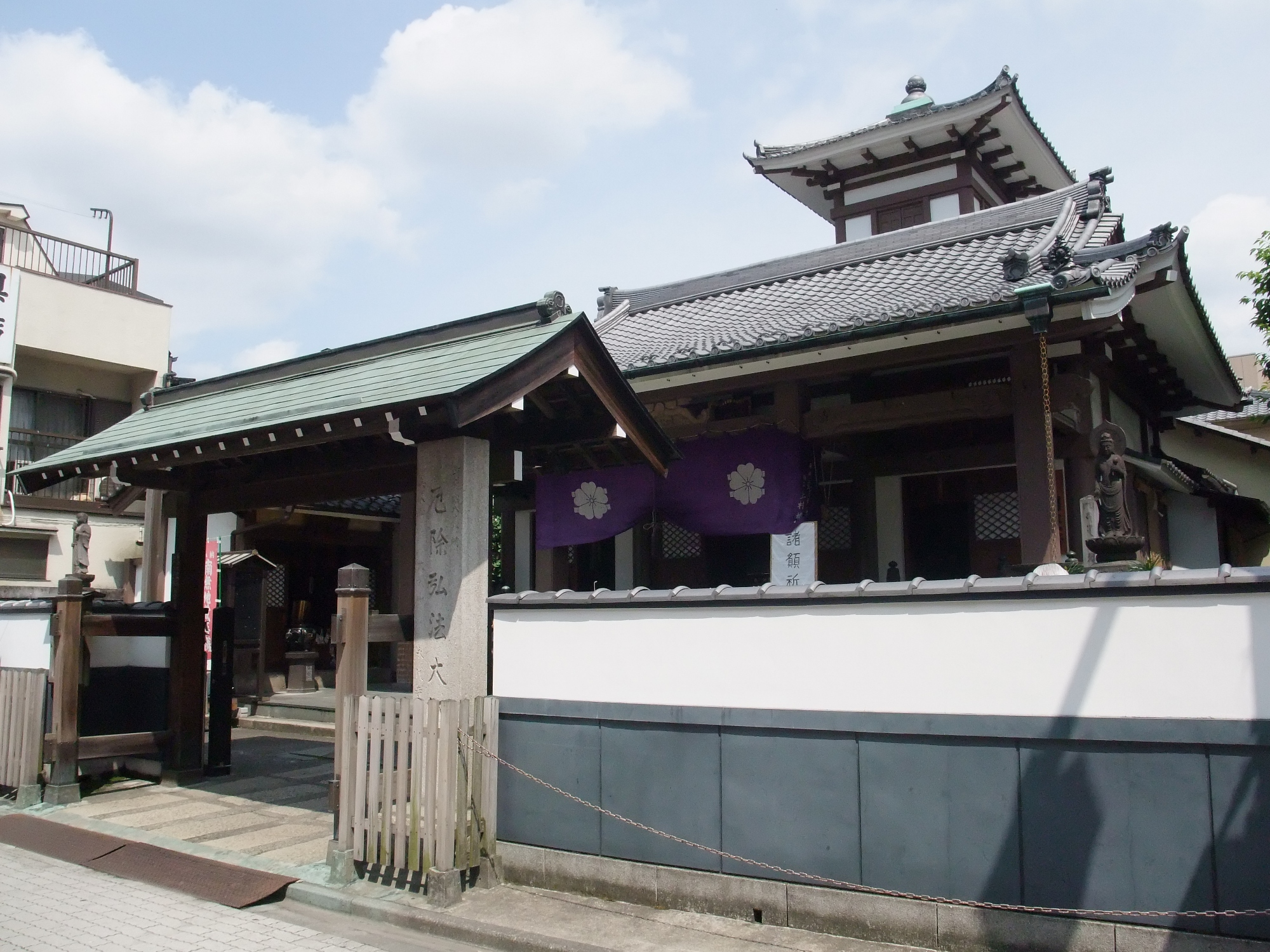 Eitai-ji temple in Koto, Tokyo